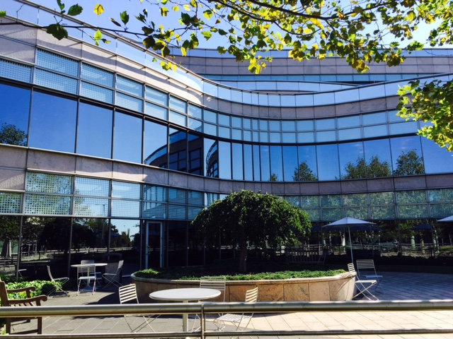 Where Cleveland Clinic outpatient cancer treatment was offered prior to March 6th, 2017.